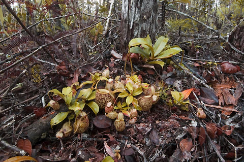 Nepenthes × hookeriana